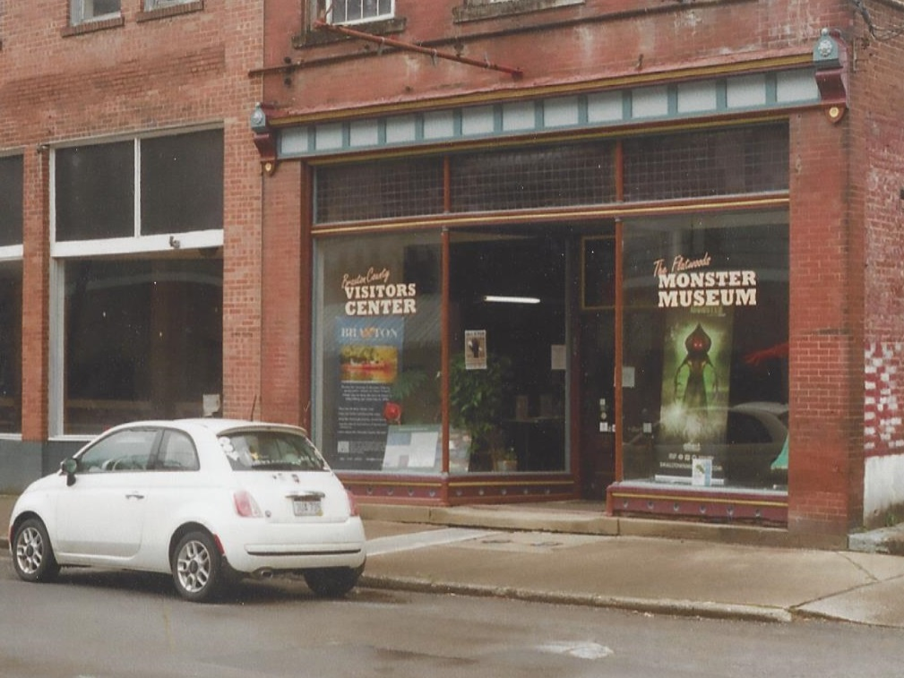 Street view of the Braxton County Visitor Center in Suton, West Virginia